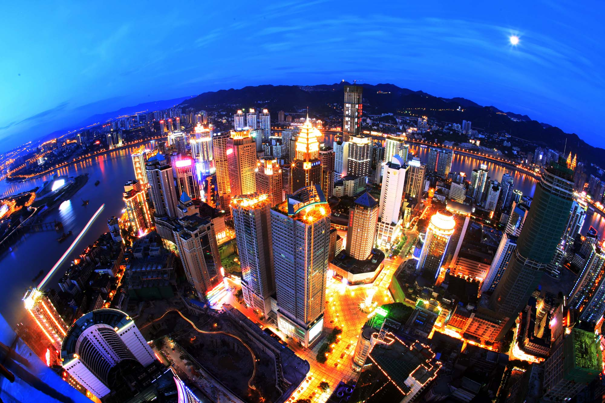 Spectacual wide-lens nightview over the Yuzhong skyline in Chongqing, China. Taken with Canon EOS 5D.